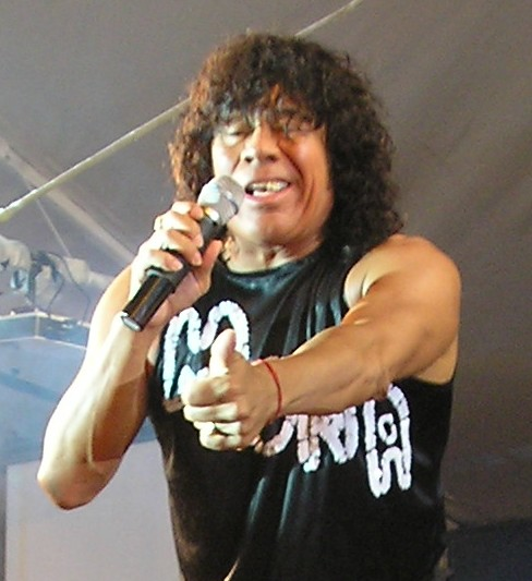 Juan Carlos "La Mona" Jiménez singing in La Falda, Córdoba (Hotel of the Health Workers Union)